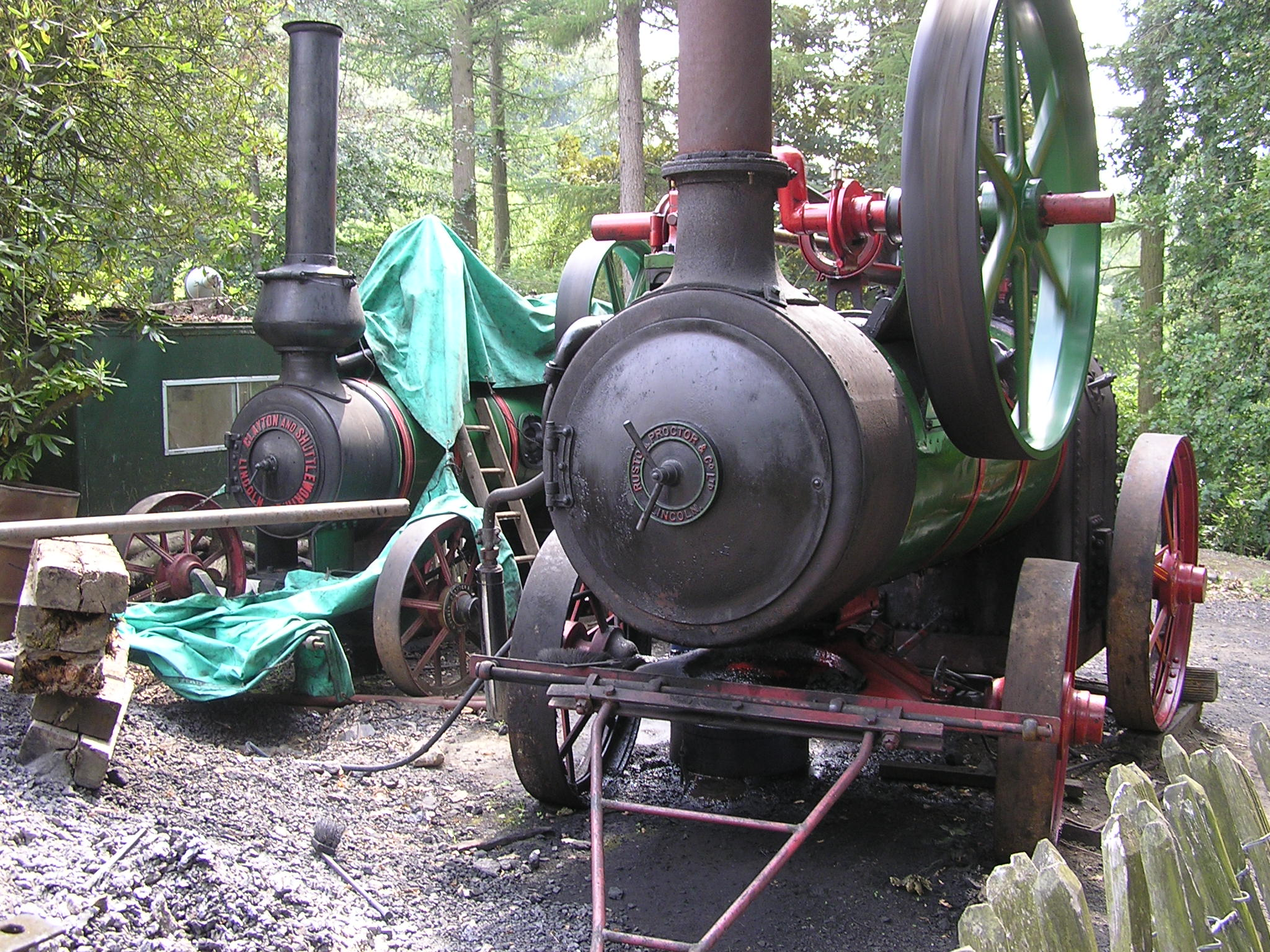 Clayton & Shuttleworth 8NHP PE 50010 ‘Eileen’ (1926) & Ruston & Proctor 12hp PE ‘Big John’ Hollycombe, Liphook 3.8.2004 P8030018